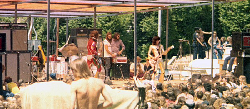 Brownsville Station on stage in Charlotte, NC at rock concert held at Charlotte Memorial Stadium, 1972.